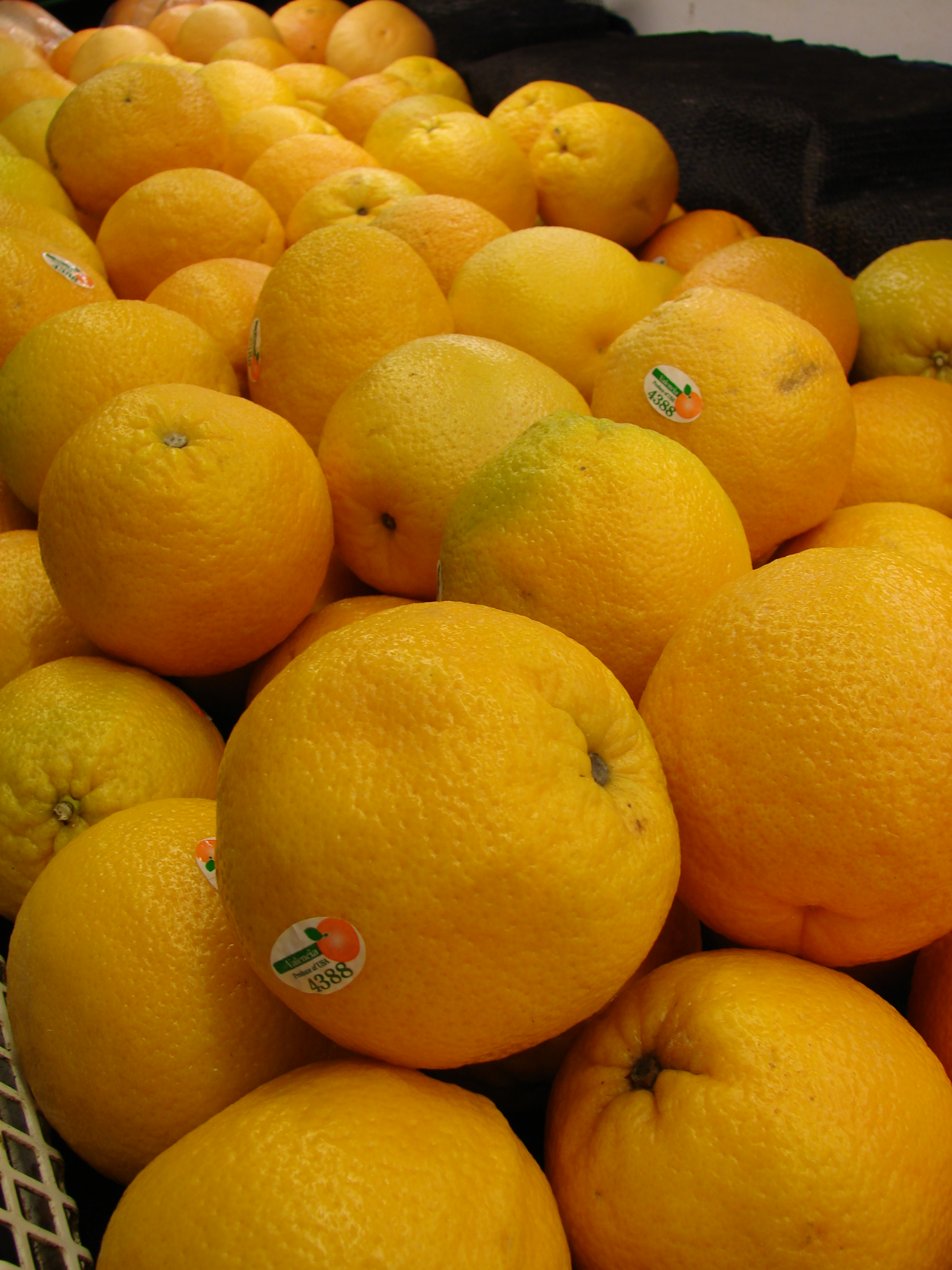 Citrus sinensis (Valencia variety). Location: Maui, Foodland Pukalani